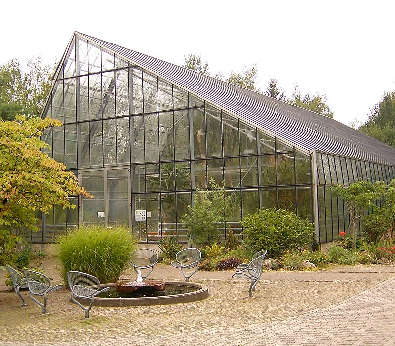 Description: Desert green house, BG Bochum, Germany Source: self-made Date: created 25. Aug. 2006 Author: Frank Vincentz Permission: GFDL (self made)